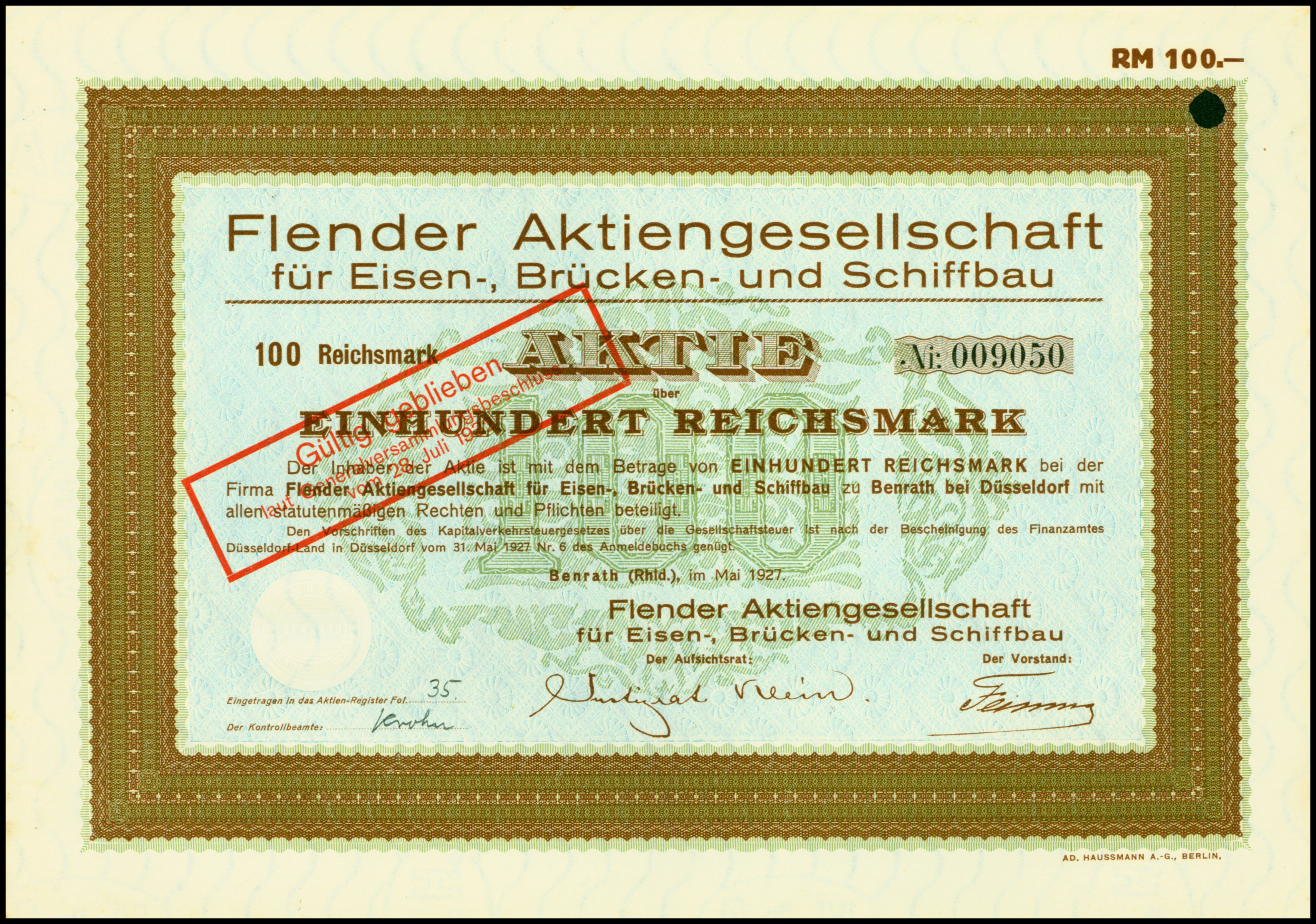 Share of the Flender AG für Eisen-, Brücken- und Schiffbau, issued May 1927